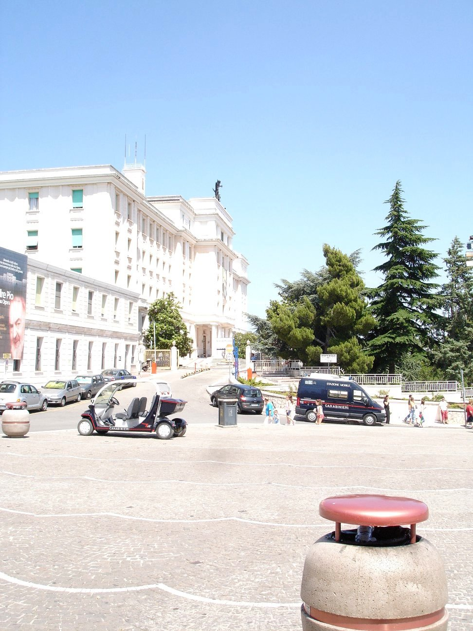 Home for the Relief of the Suffering - founded by St. Padre Pio of Pietrelcina.